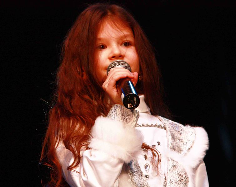 Live Performance in Romania